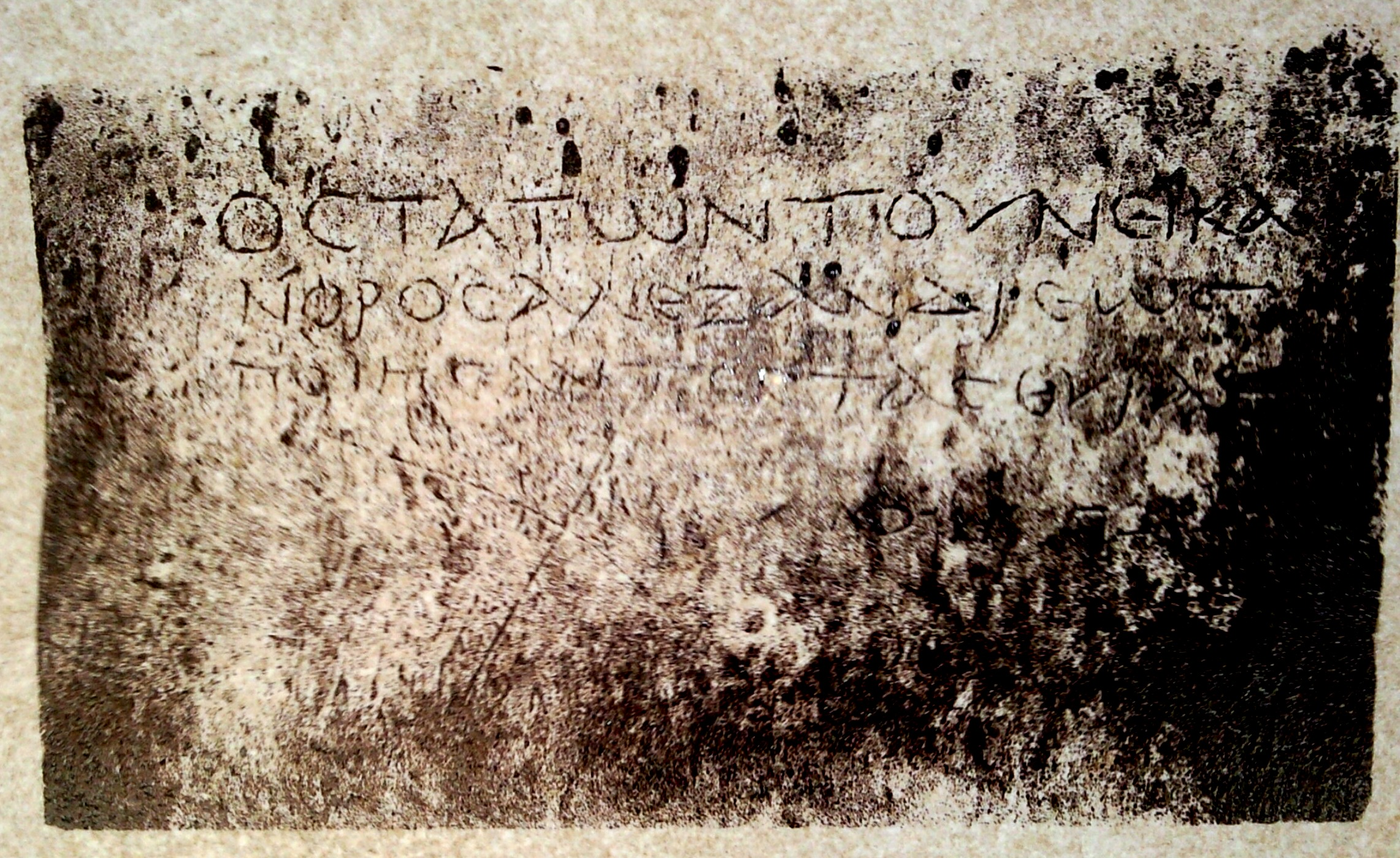 NICANOR inscription, found on a Ossuary at NICANOR cave in Mount Scopus, Jerusalem, Israel. dated to the 1st century CE. the inscription written in Greek and Aramaic. ῦ Νεικά νορος Ὰλεξανδρέυς ποιήσαντος τάς θύρας נקנר אלךסא